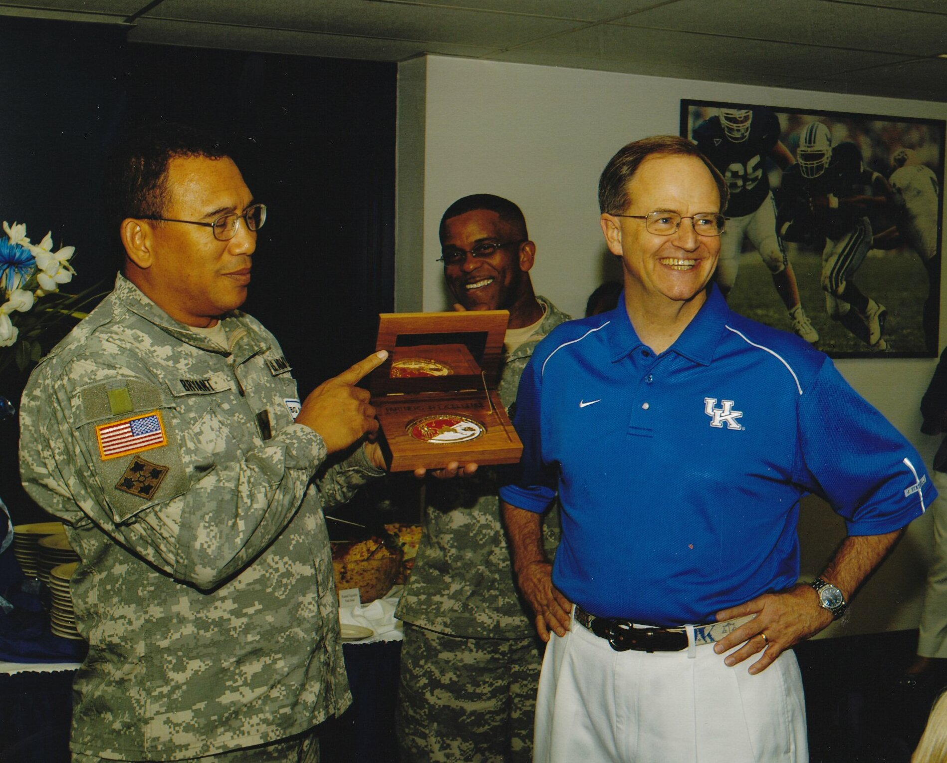 11th University of Kentucky President Lee T. Todd, Jr. receives an award from United States Army General Albert Bryant, Jr., Deputy Commander of Fort Knox, Kentucky, in 2005. The University of Kentucky maintains a close relationship with and supports the soldiers and civilians of nearby Fort Knox and the U.S. Armed Forces, hosting regular "UK hosts Fort Knox Day" events to honor the nation's serving men and women.